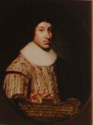 Enno II. Cirksena, unsigned portrait. See this article on the image's restoration for further information (in German).